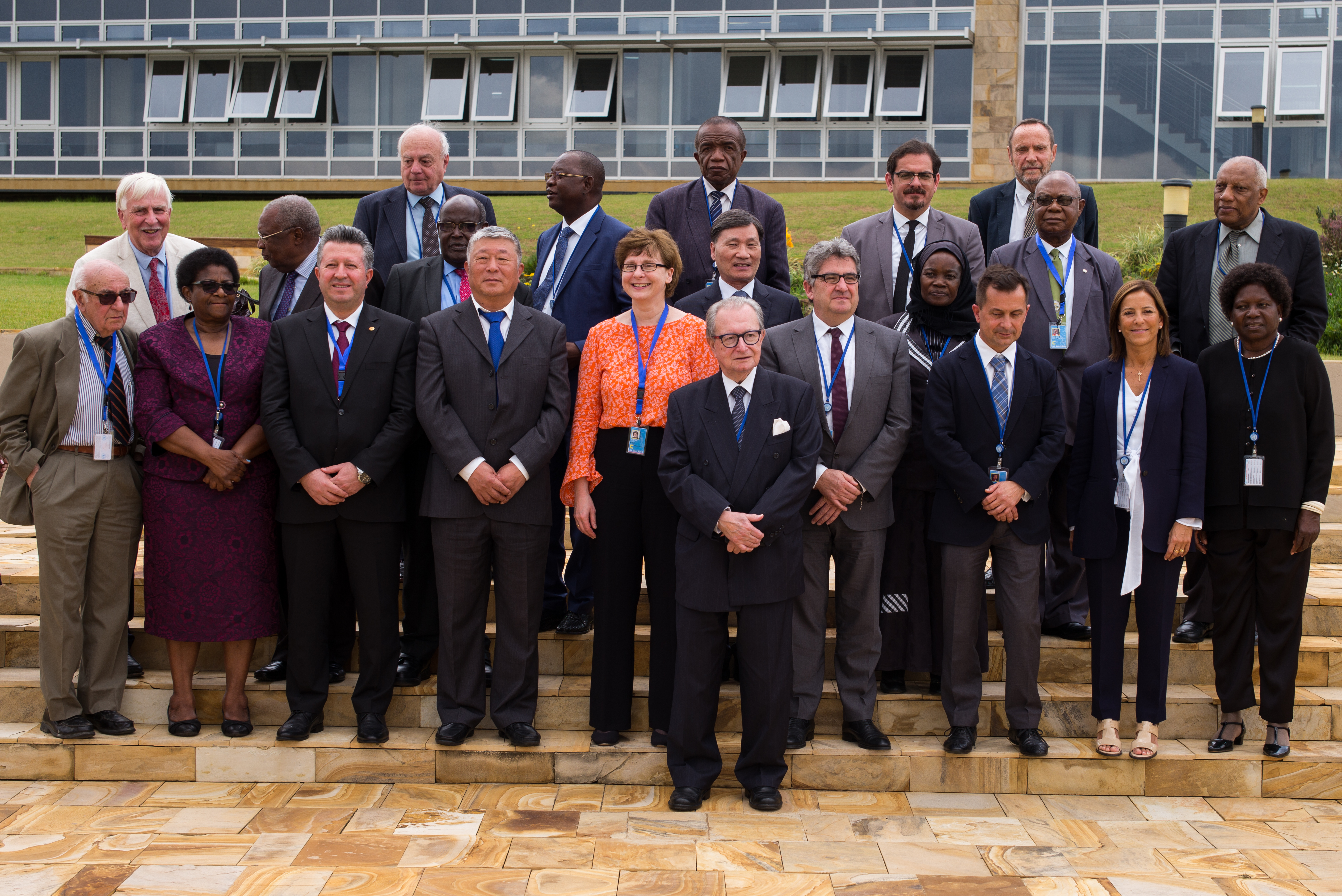 Judges of the UN International Residual Mechanism for Criminal Tribunals